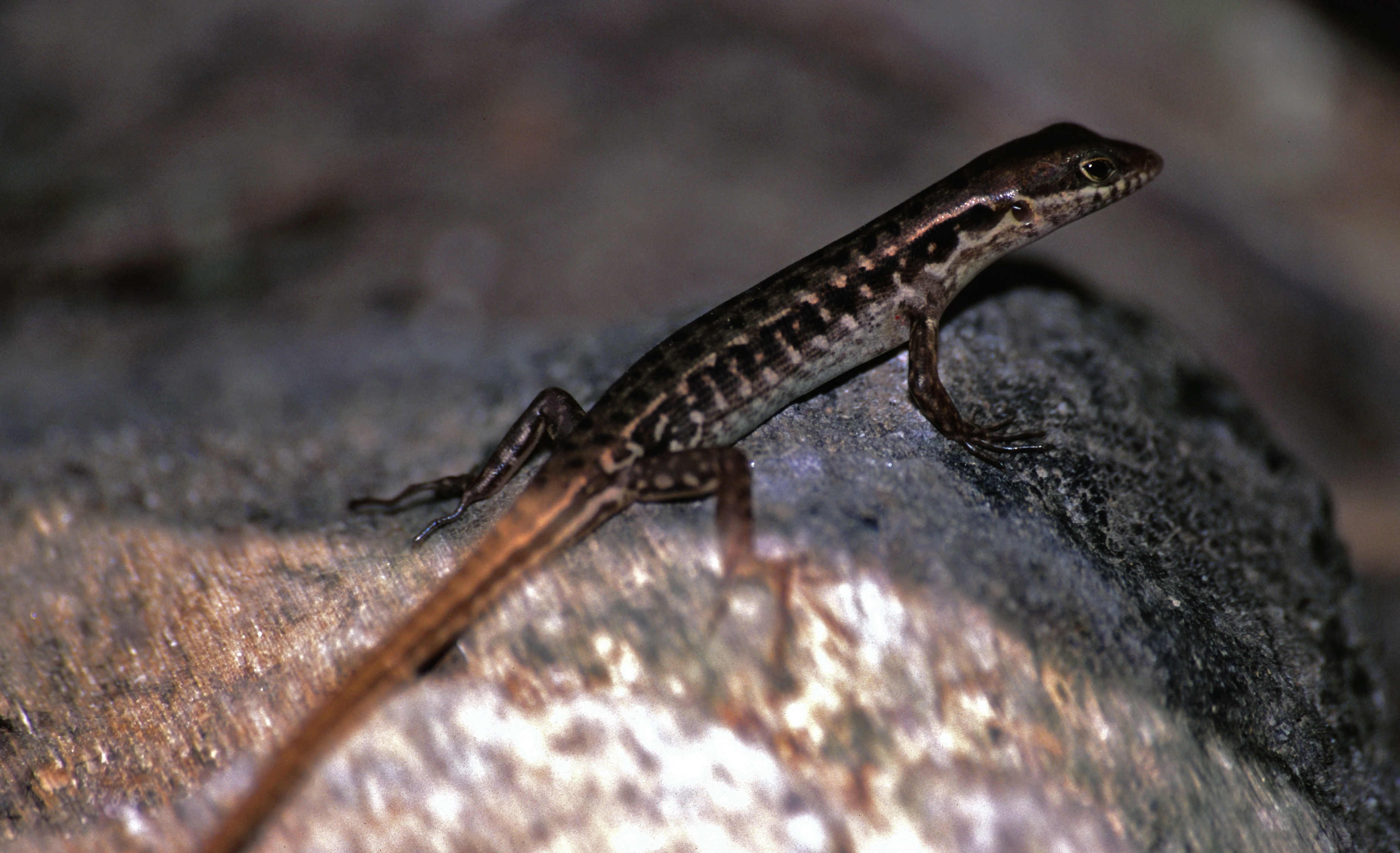 Rinca Island INDONESIA